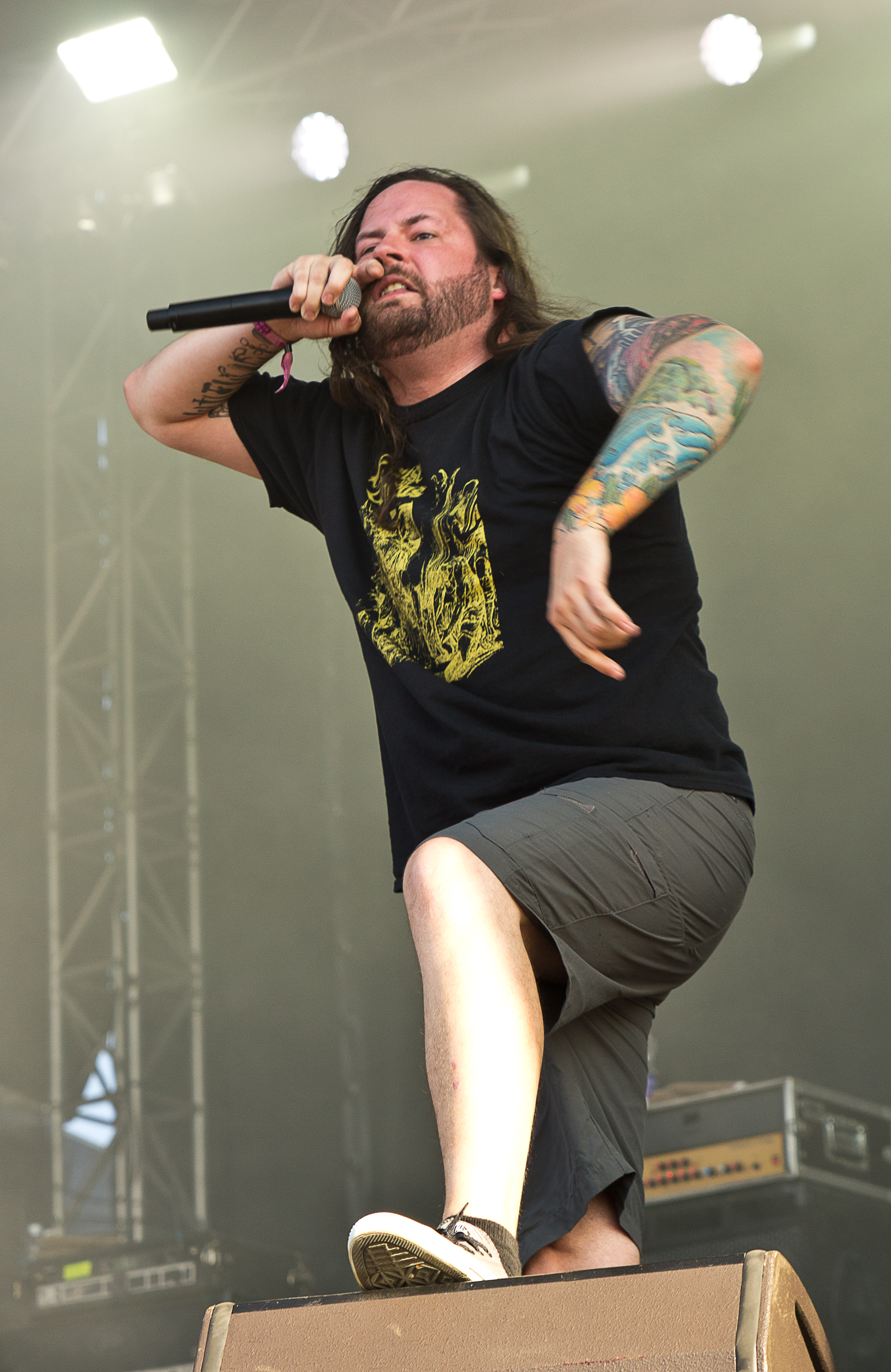 The american melodic death metal band The Black Dahlia Murder at the Rockharz Open Air 2015 in Ballenstedt/Germany.